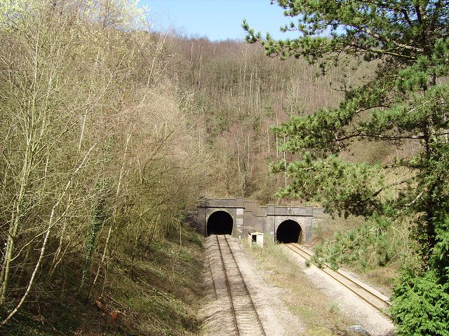 Dinmore Tunnels. South portals of the twin bore tunnels under Dinmore. The A49 goes over the top , rather hazardously, and the river goes around. One tunnel was added later at a slightly different height. The hill is made of a hard sandstone and is mostly covered in oak forest.